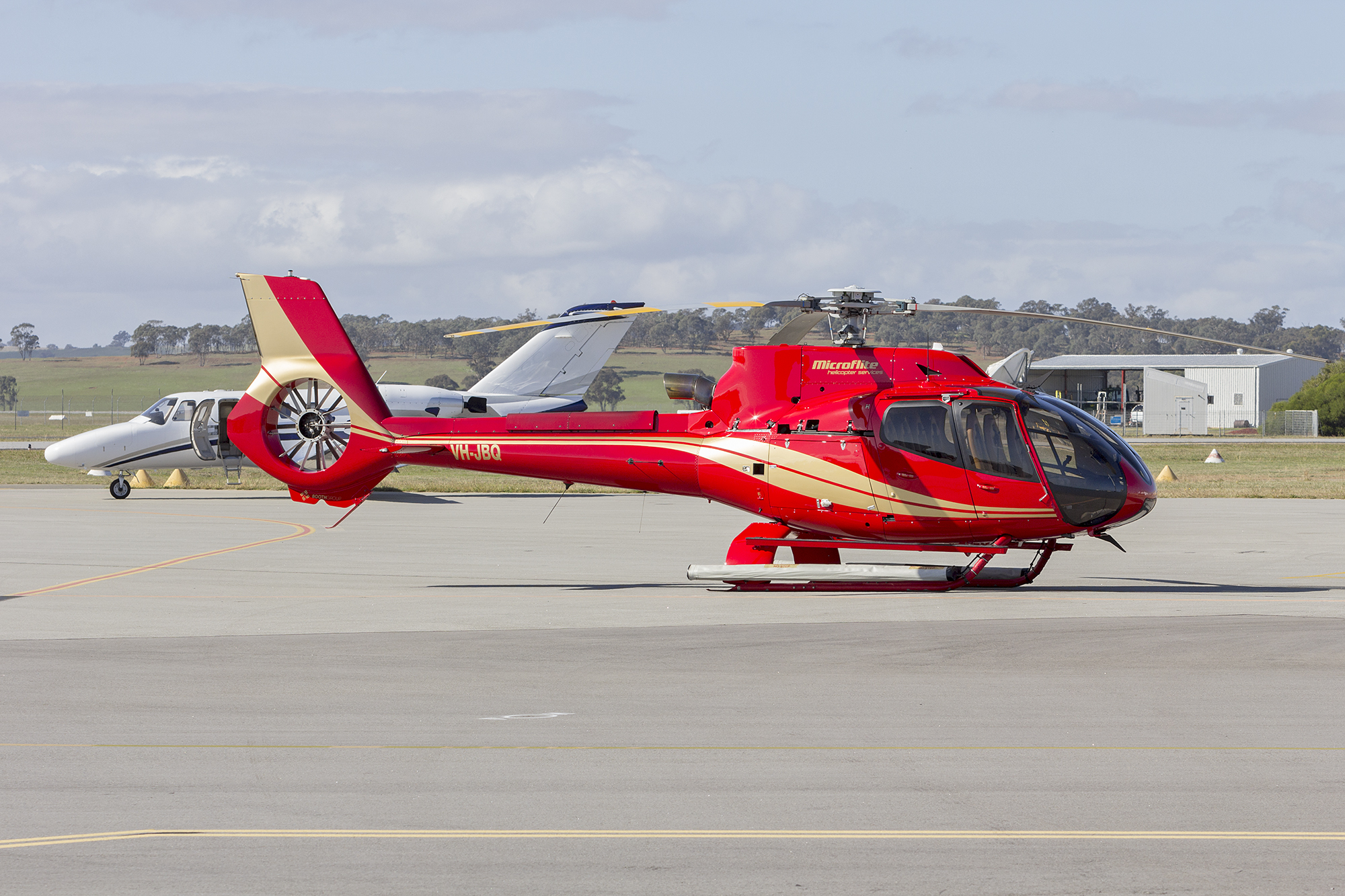 Microflite Helicopter Services (VH-JBQ) Eurocopter EC130 T2 Ecureuil at Wagga Wagga Airport.